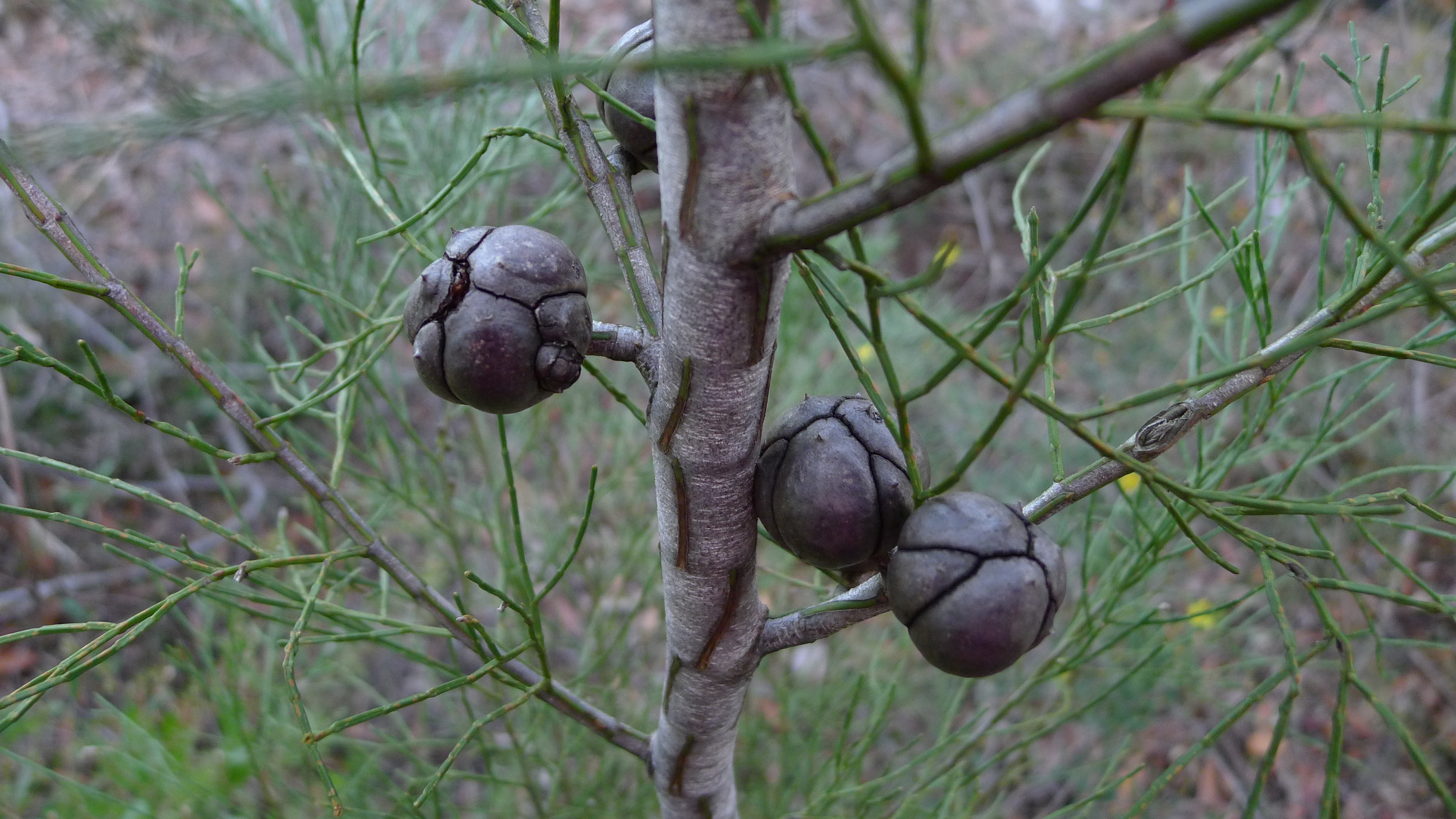 Cones of Callitris muelleri. Heathcote National Park, NSW, Australia.